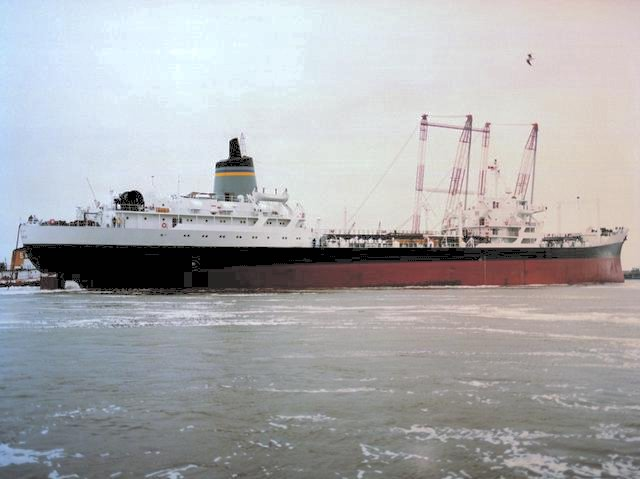 U.S. Navy fleet oiler USNS Maumee (T-AO-149)